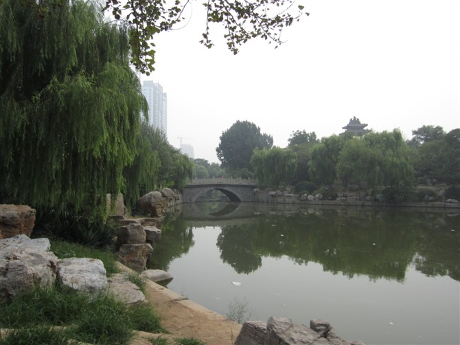 Fuyang Park